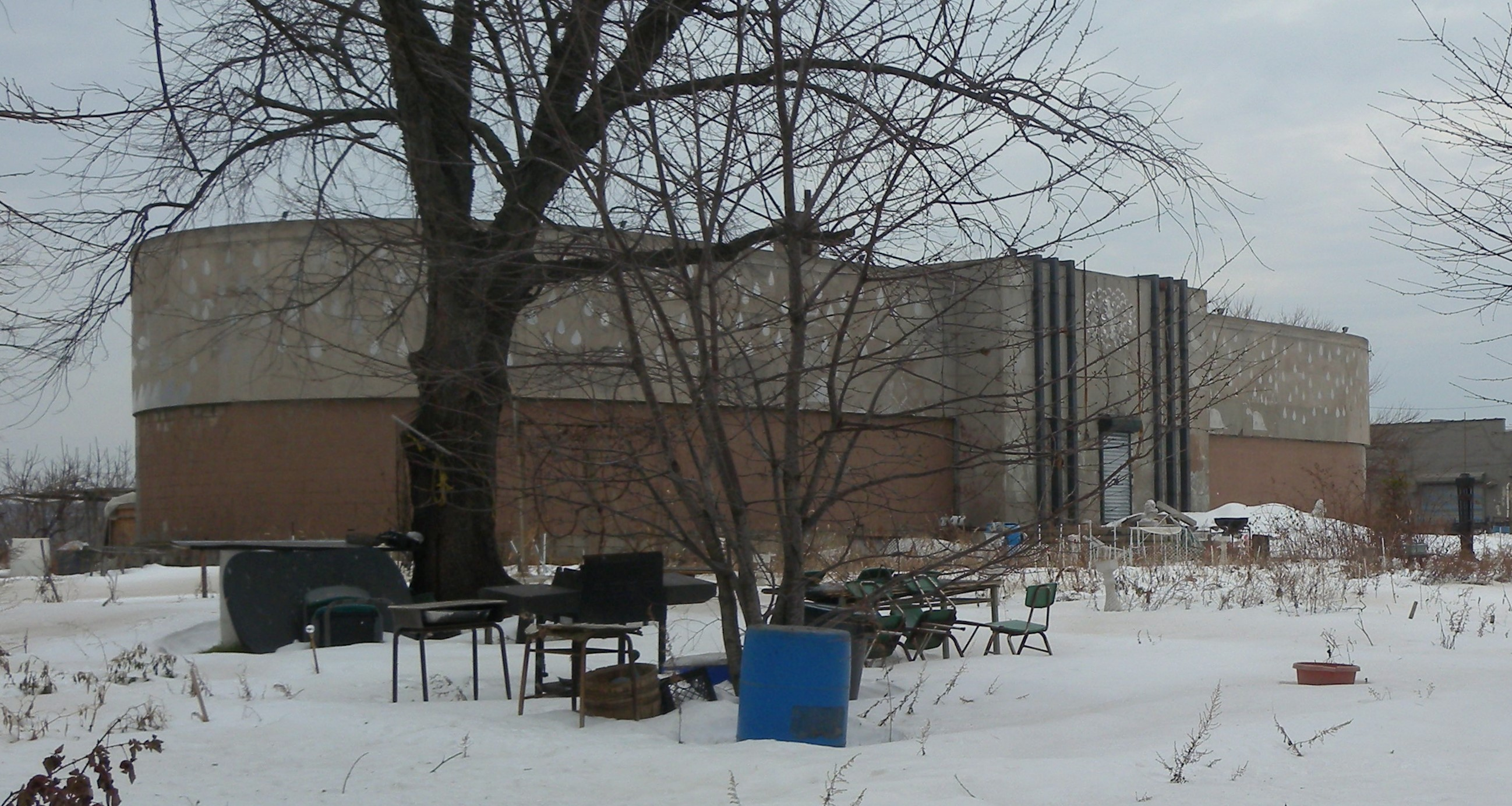 Looking northeast at pumping station on a cloudy New Years Day after snowfall.